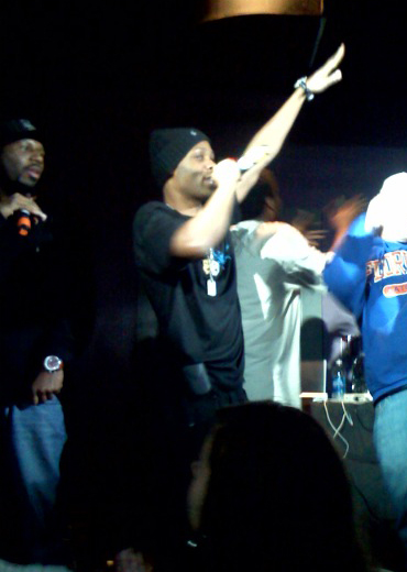 Cormega performing in January 2008